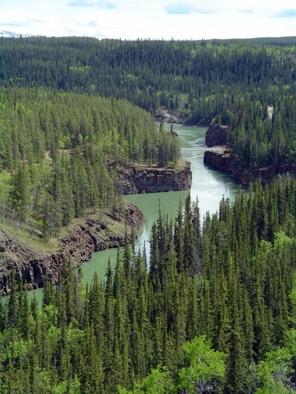 Miles Canyon, Whitehorse, Yukon